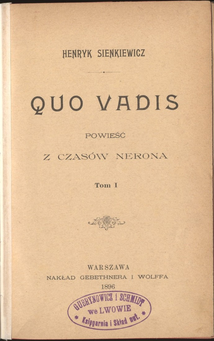 novel